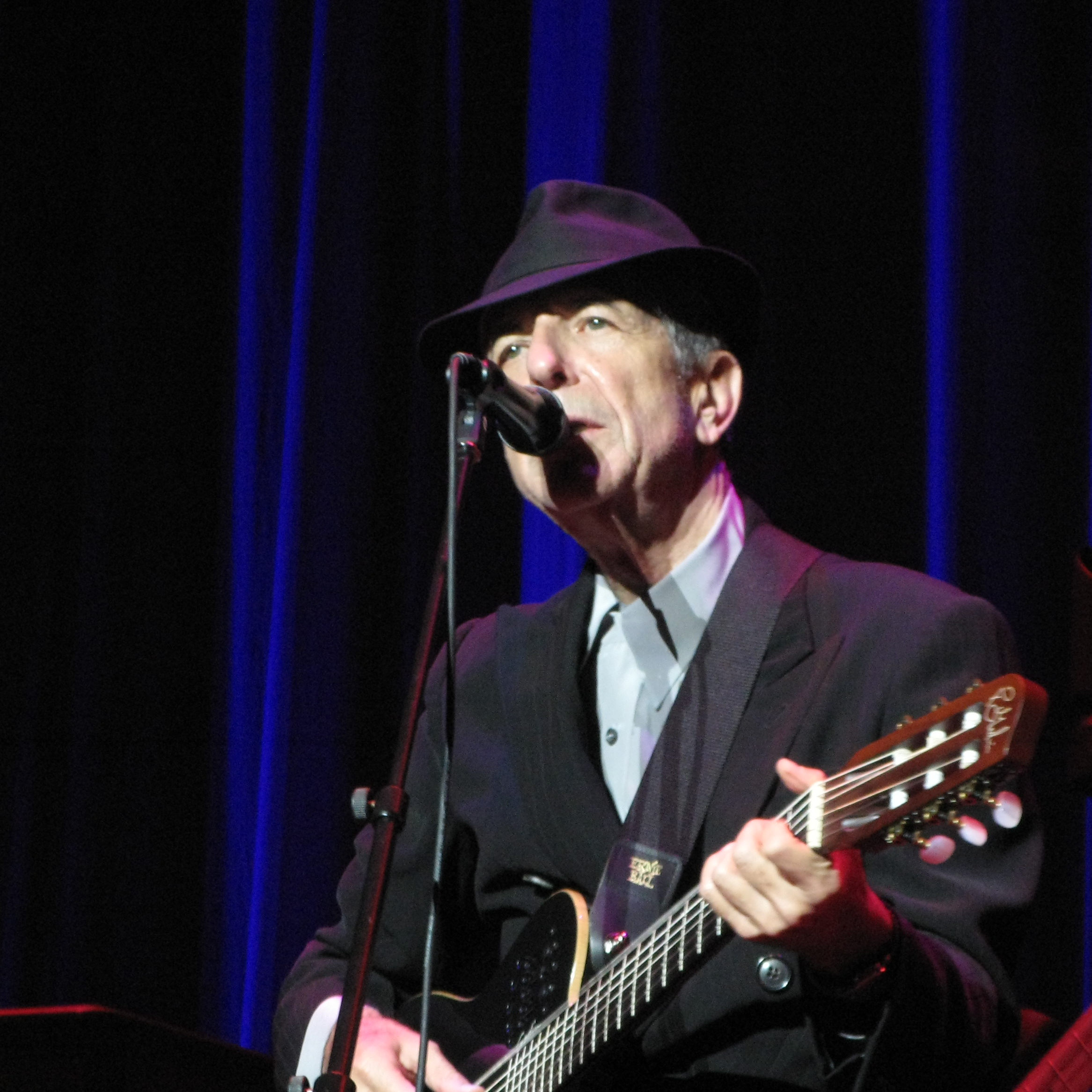 Leonard Cohen